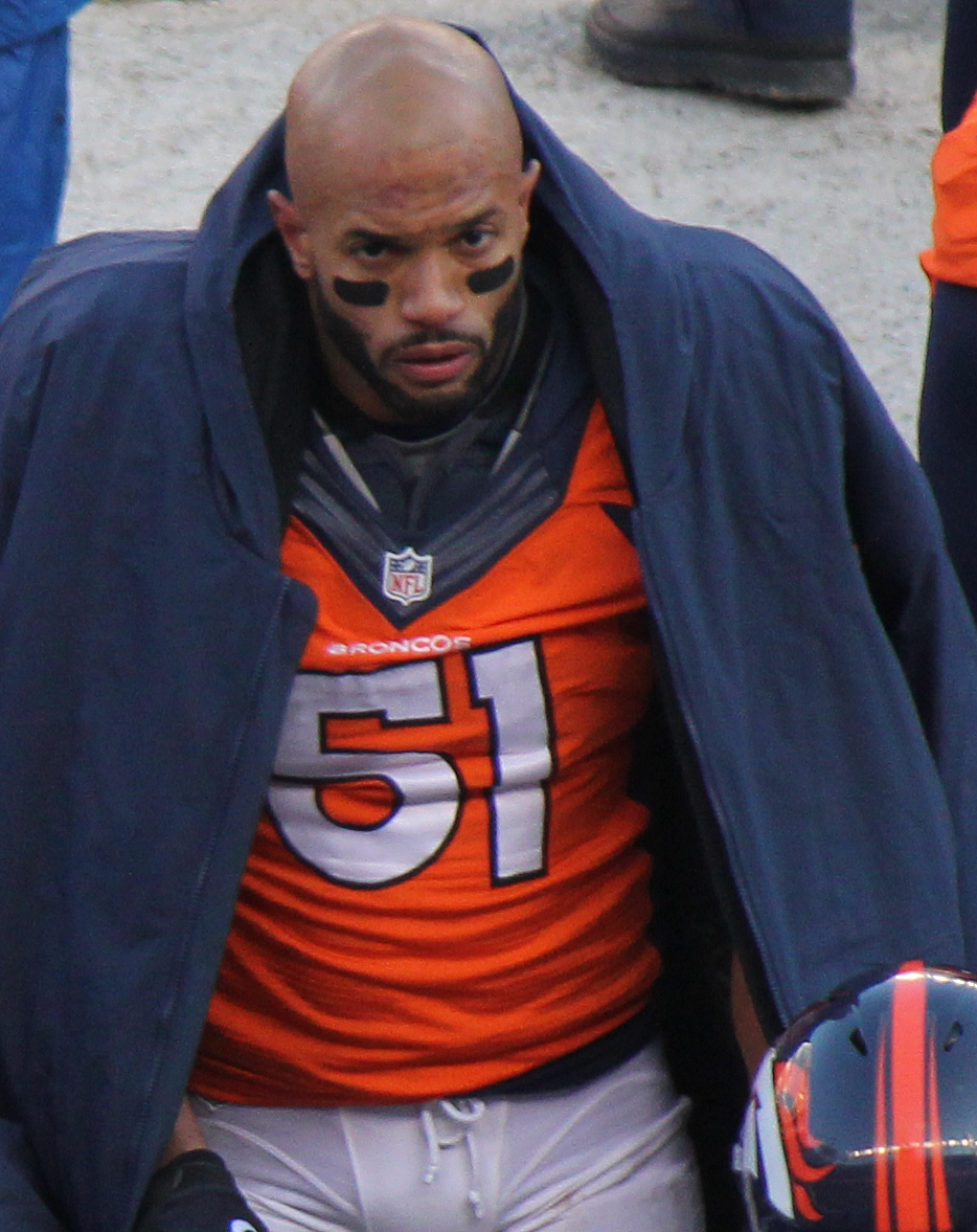 Paris Lenon, a player on the National Football League.